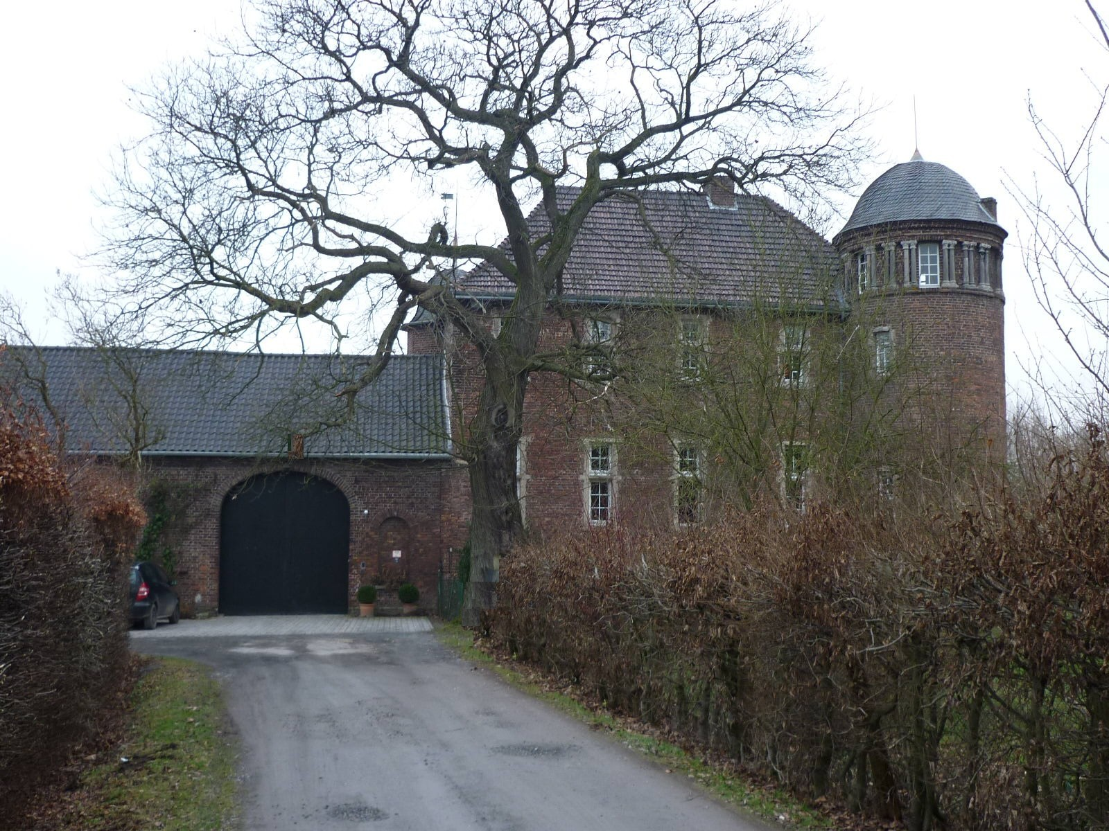 Mansion Haus Gripswald in Meerbusch, Germany